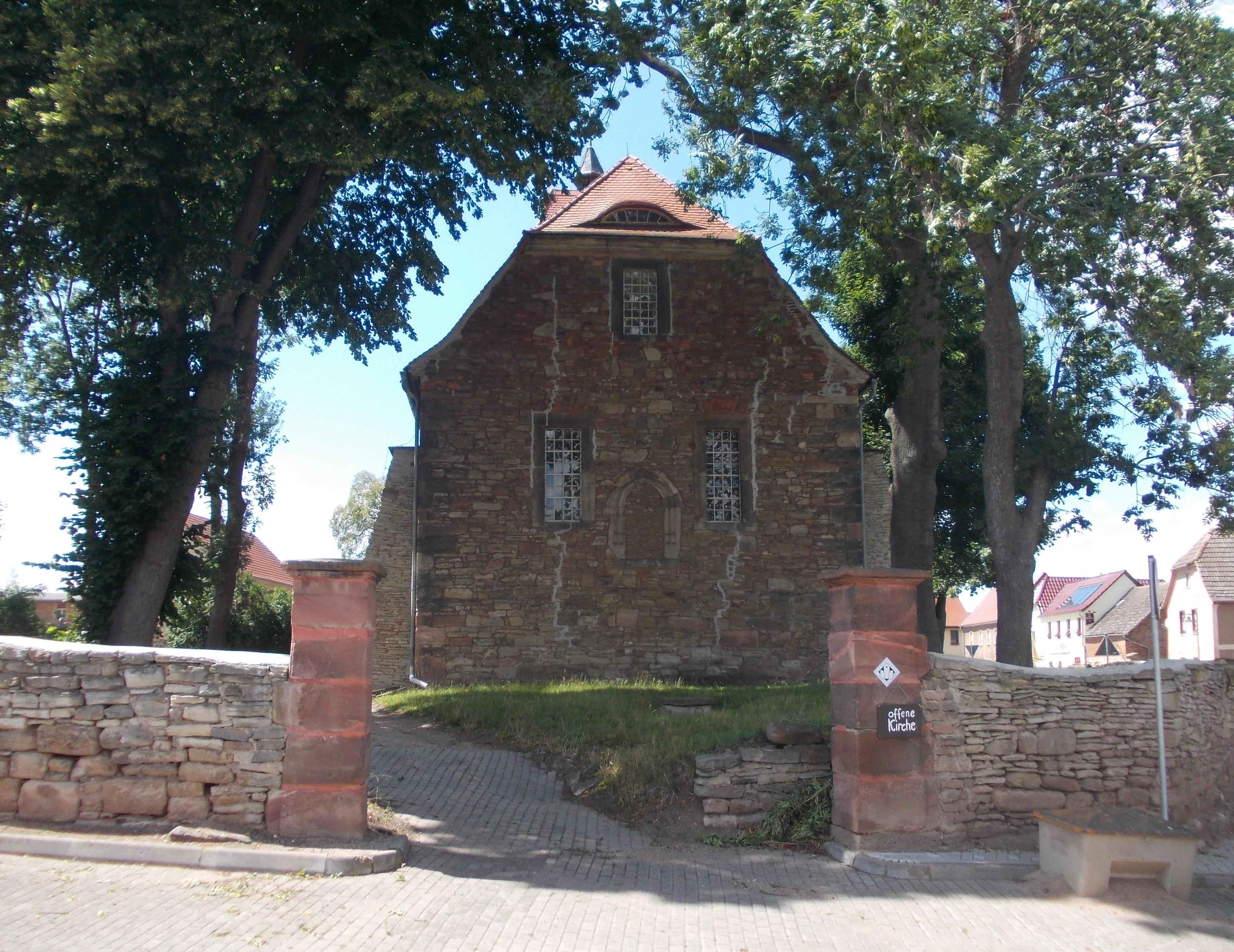 St. Martin's Church in Memleben (Kaiserpfalz, district: Burgenlandkreis, Saxony-Anhalt)